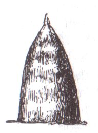 haystack Latin: meta foeni